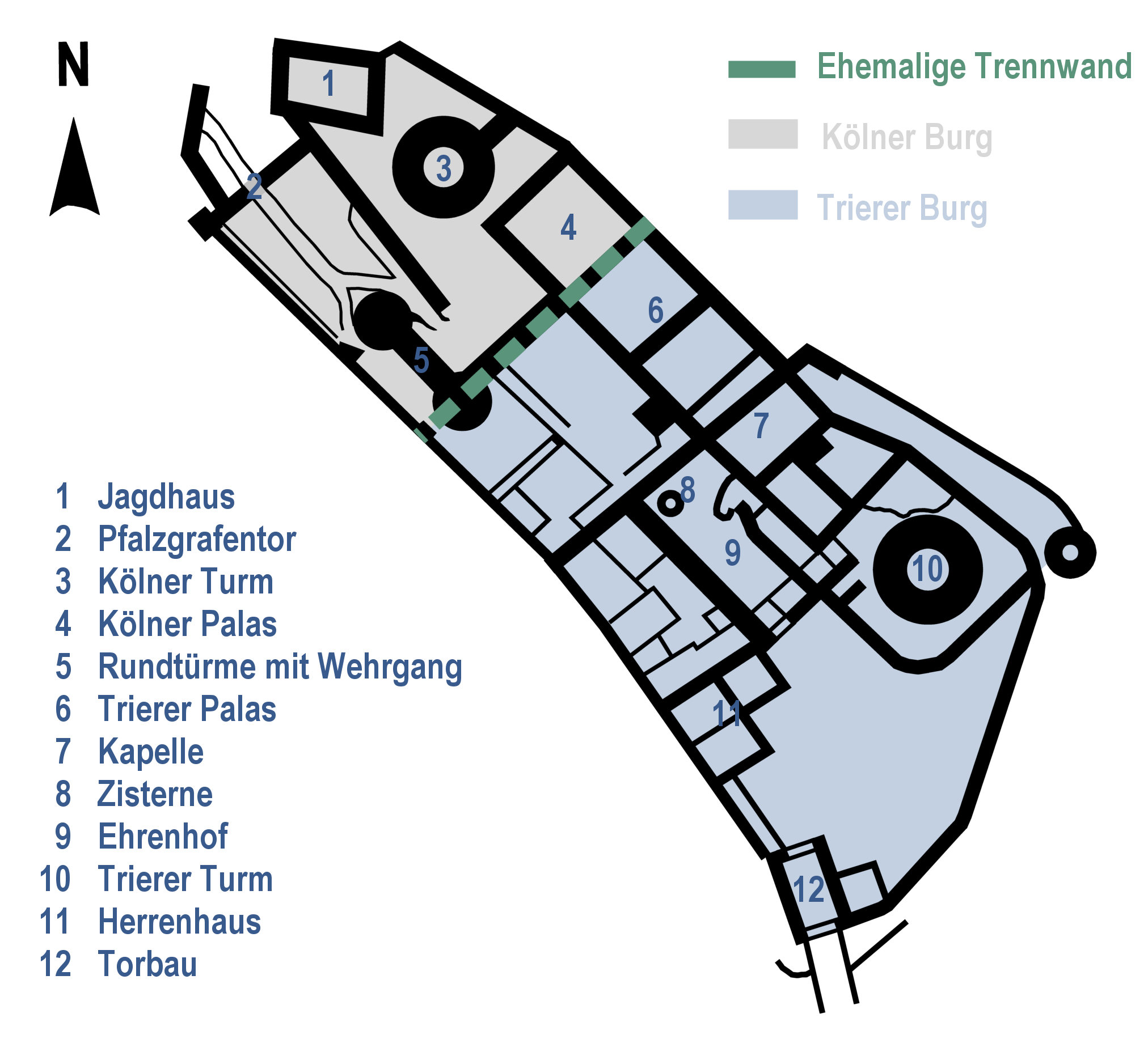 Thurant Castle, floor plan during the Middle Ages